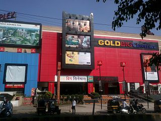 3d cinema in Dharamshala city of Kangra,Himachal Pradesh